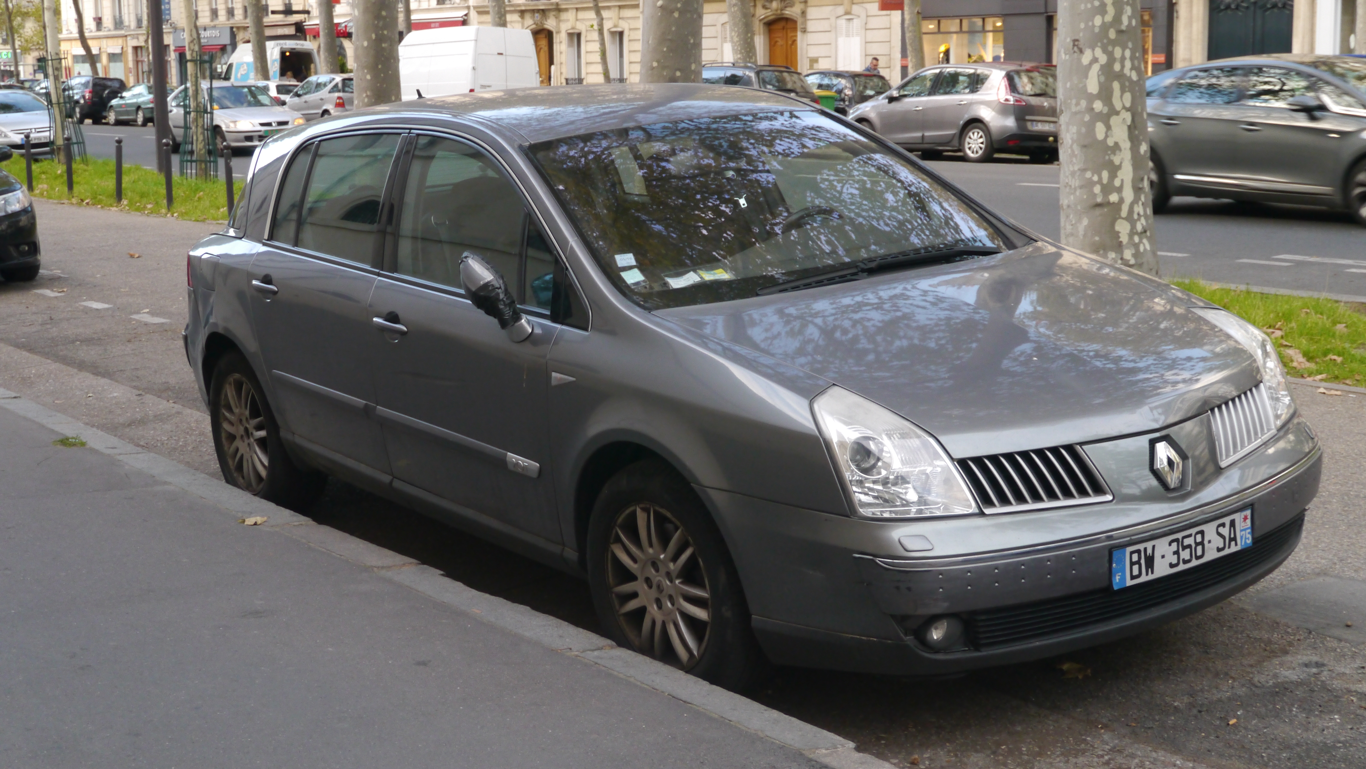 Paris, France. I never realised how big these actually were! Probably would've looked better if it was styled as a proper sedan and not this avant style 'big bum' hatch concept. Not many on the roads.